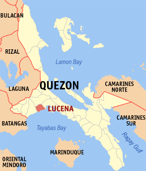 Map of Quezon showing the location of Lucena